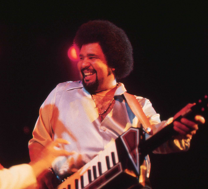 George Duke performing in Vredenburg, Utrecht, The Netherlands